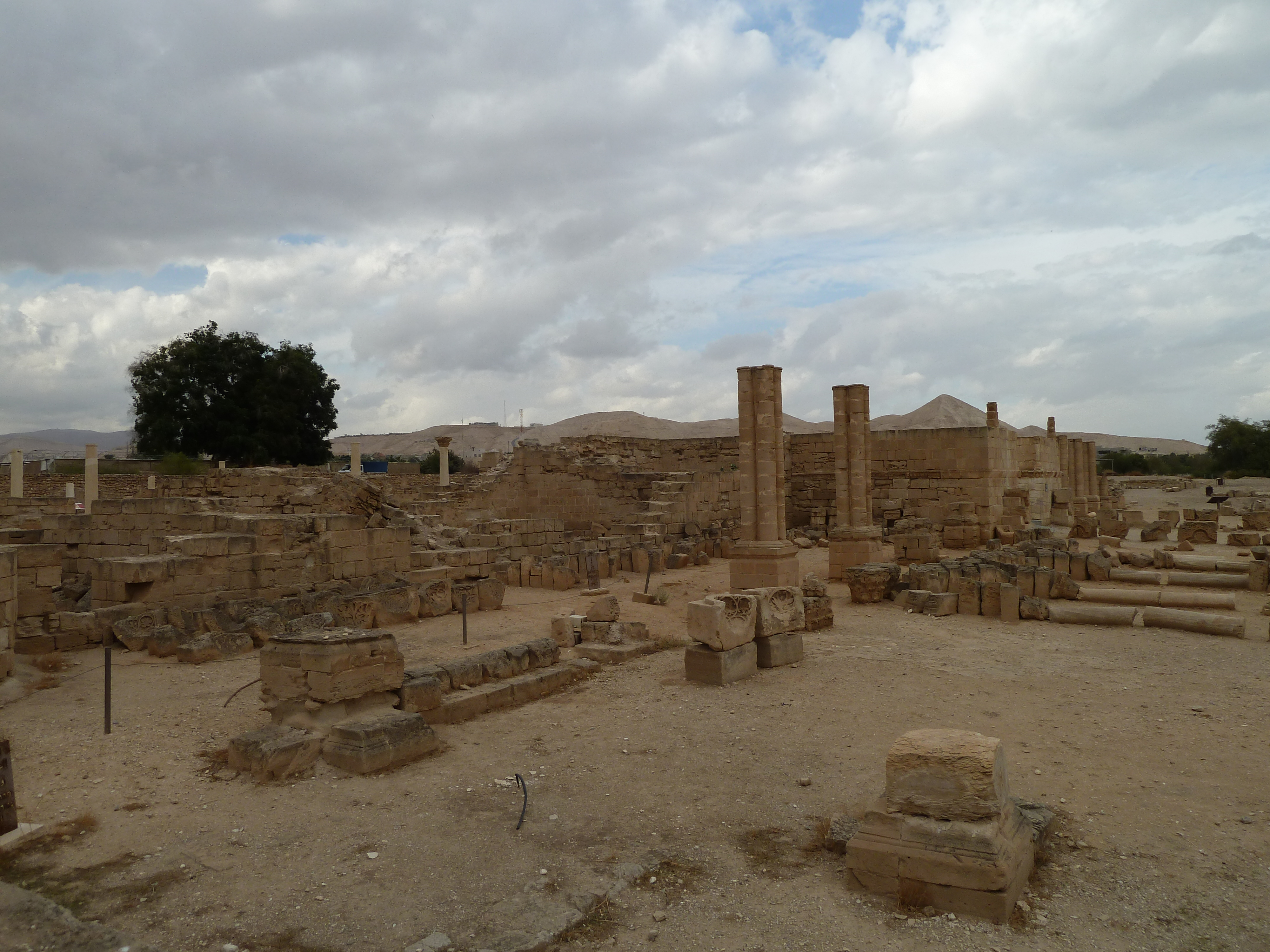 Hisham's Palace on a rainy day, Jericho